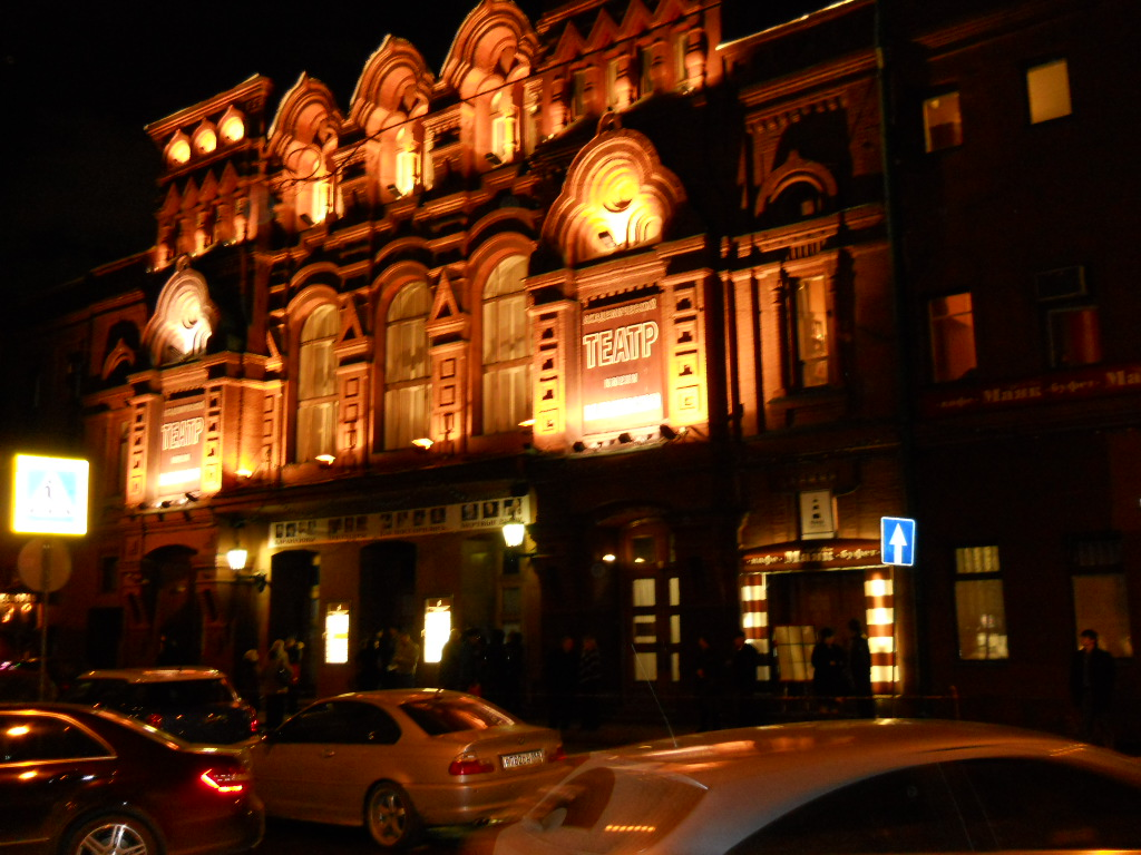 Mayakovsky Theatre in night (Moscow, Russia)